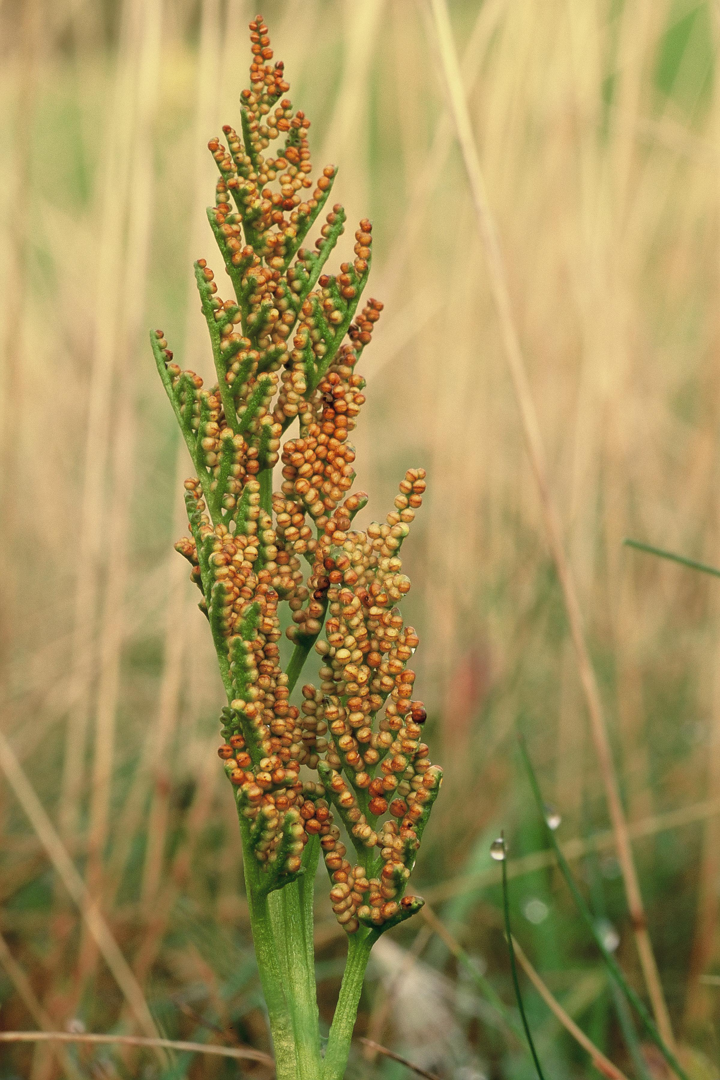 Leather Grape Fern